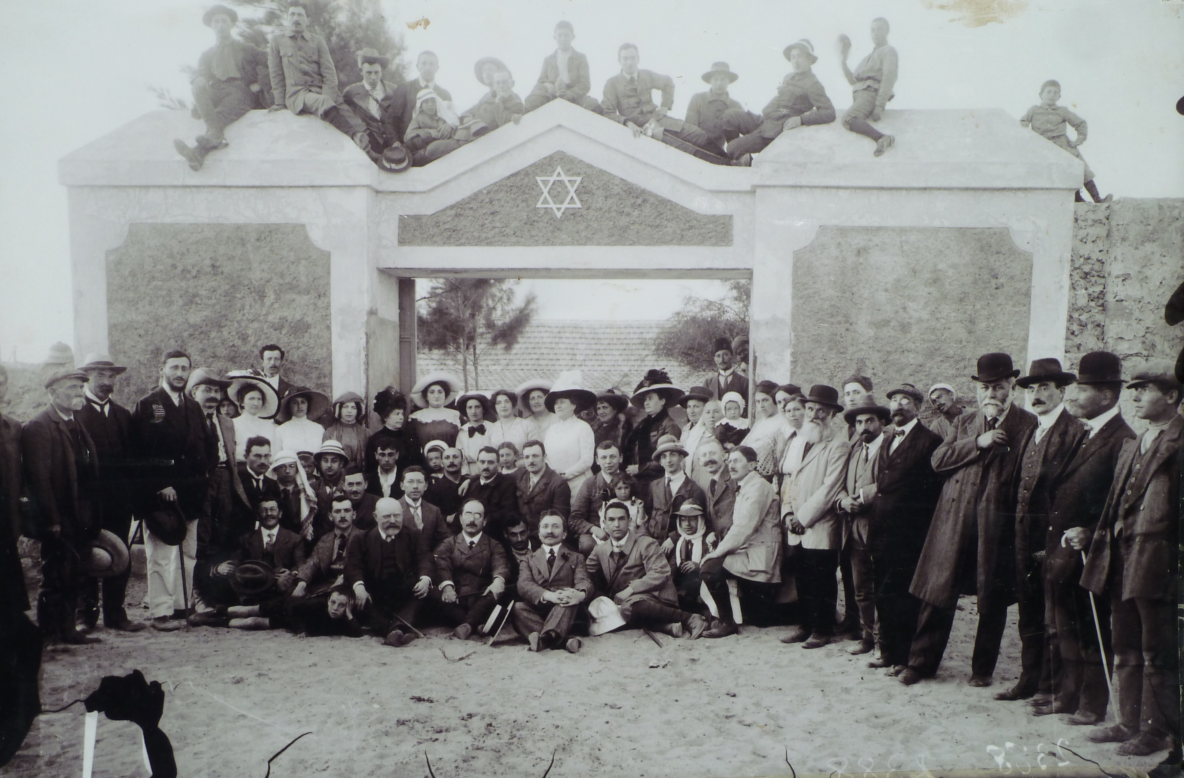 Gate of Pardes Minkov, The Museum for the History of Orange Growing in Israel, Rehovot, Israel This image was taken as part of the Elef Millim project trip to Pardes Minkov near Rehovot in the Centre of Israel, which was held on Friday, 8th February 2013. To view all images uploaded as part of the Elef Millim Project